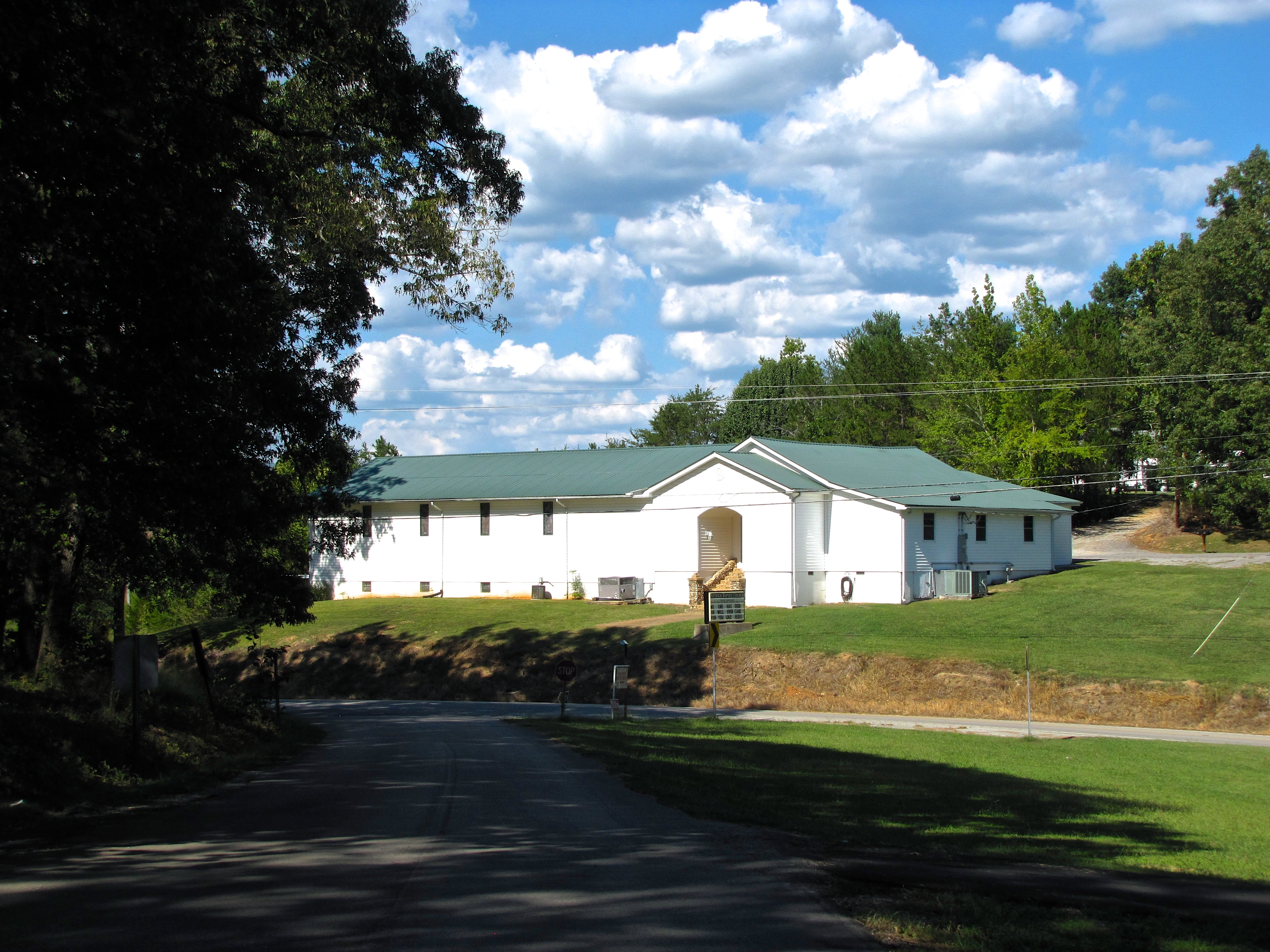 Antioch Baptist Church in New Hope, Tennessee, United States.